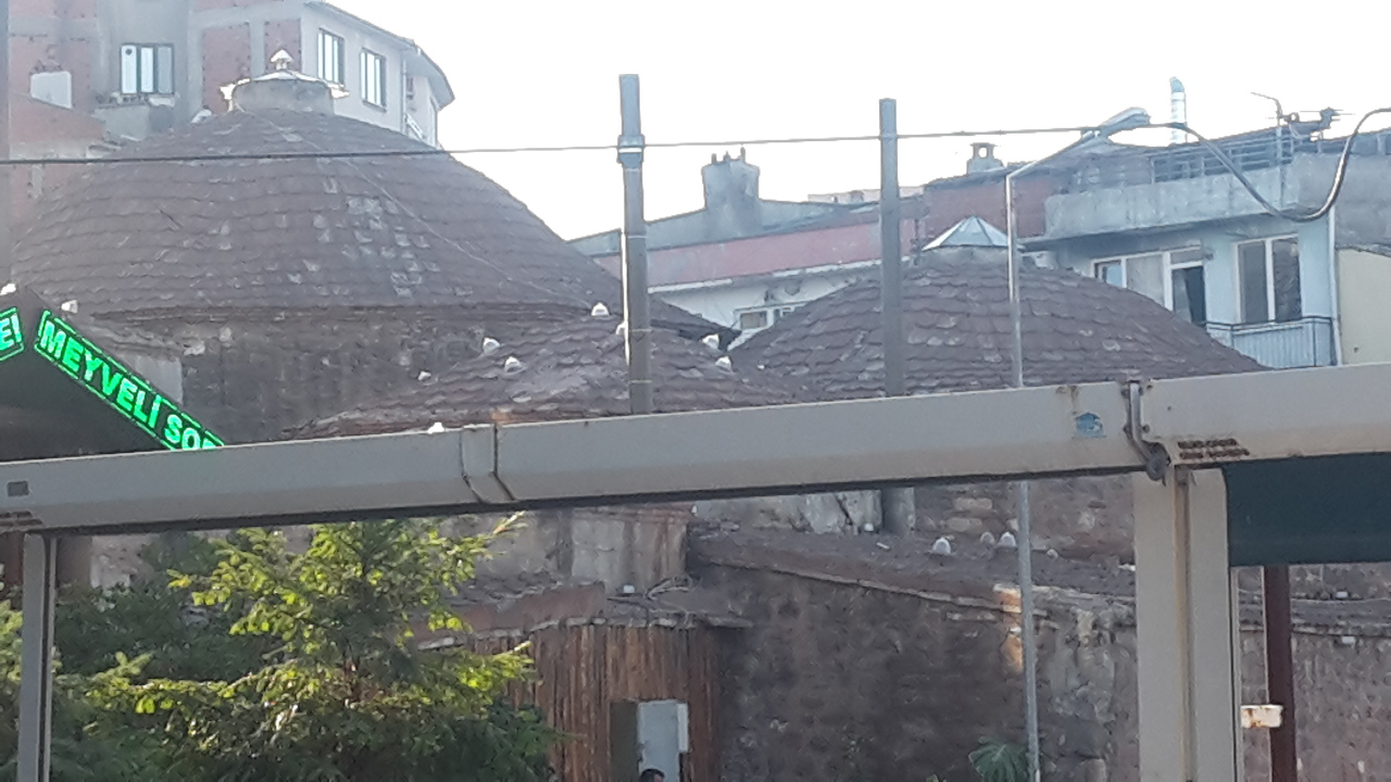 Pasha's hamam in Balikéssir.